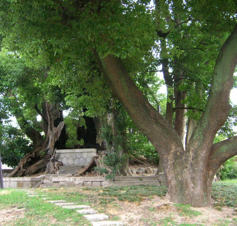 Camphor tree in ruins of a Hioki castle, Unryu Shinto shrine. (Nickname - Kusunoki-san (Mr.Camphor tree)) Loc: Nagoya city, Aichi Prefecture, Japan. 日置城跡（雲龍神社跡）の大楠・通称「くすのきさん」 撮影場所 愛知県名古屋市